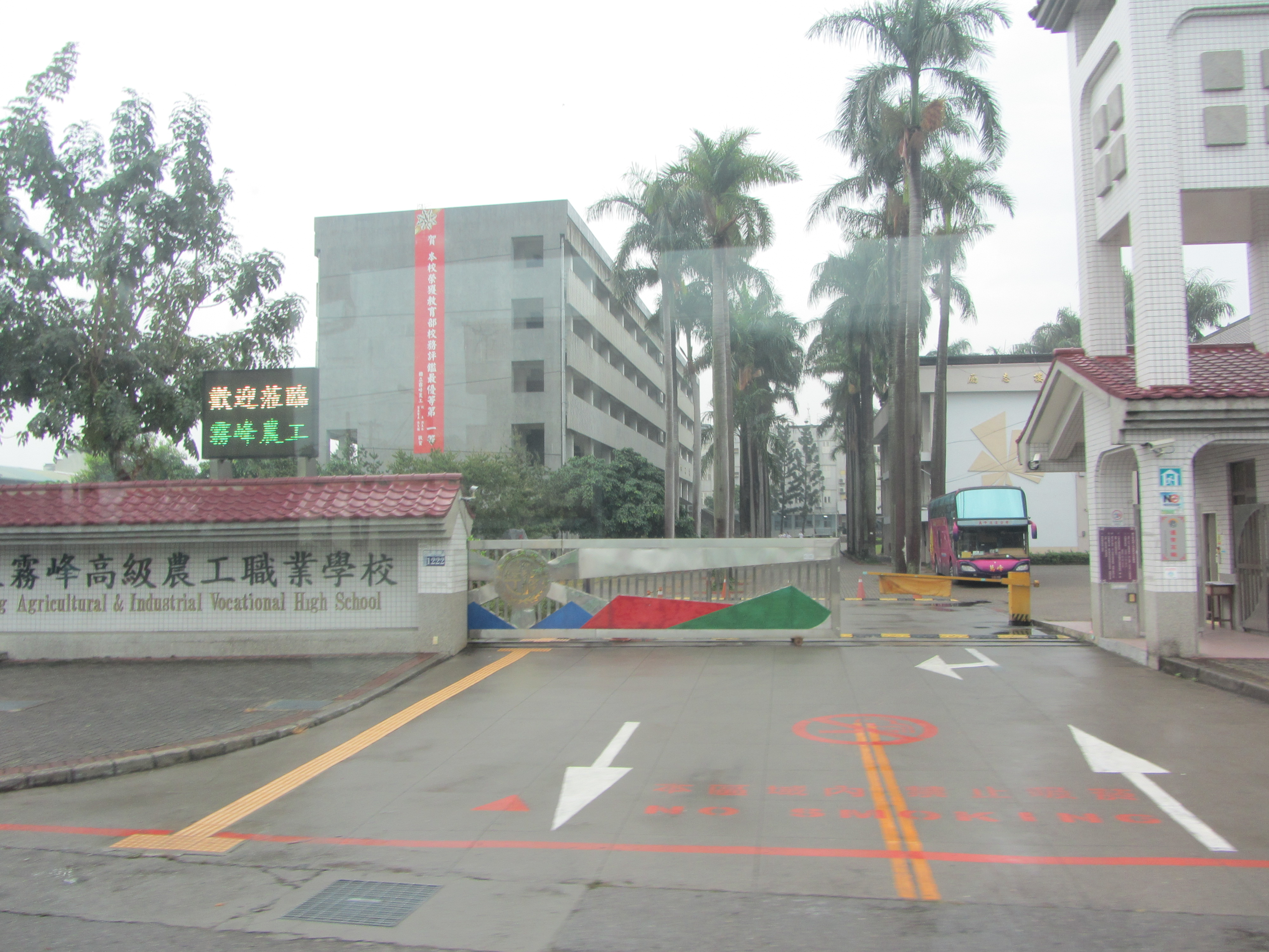 National Wufeng Agricultural & Industrial High School